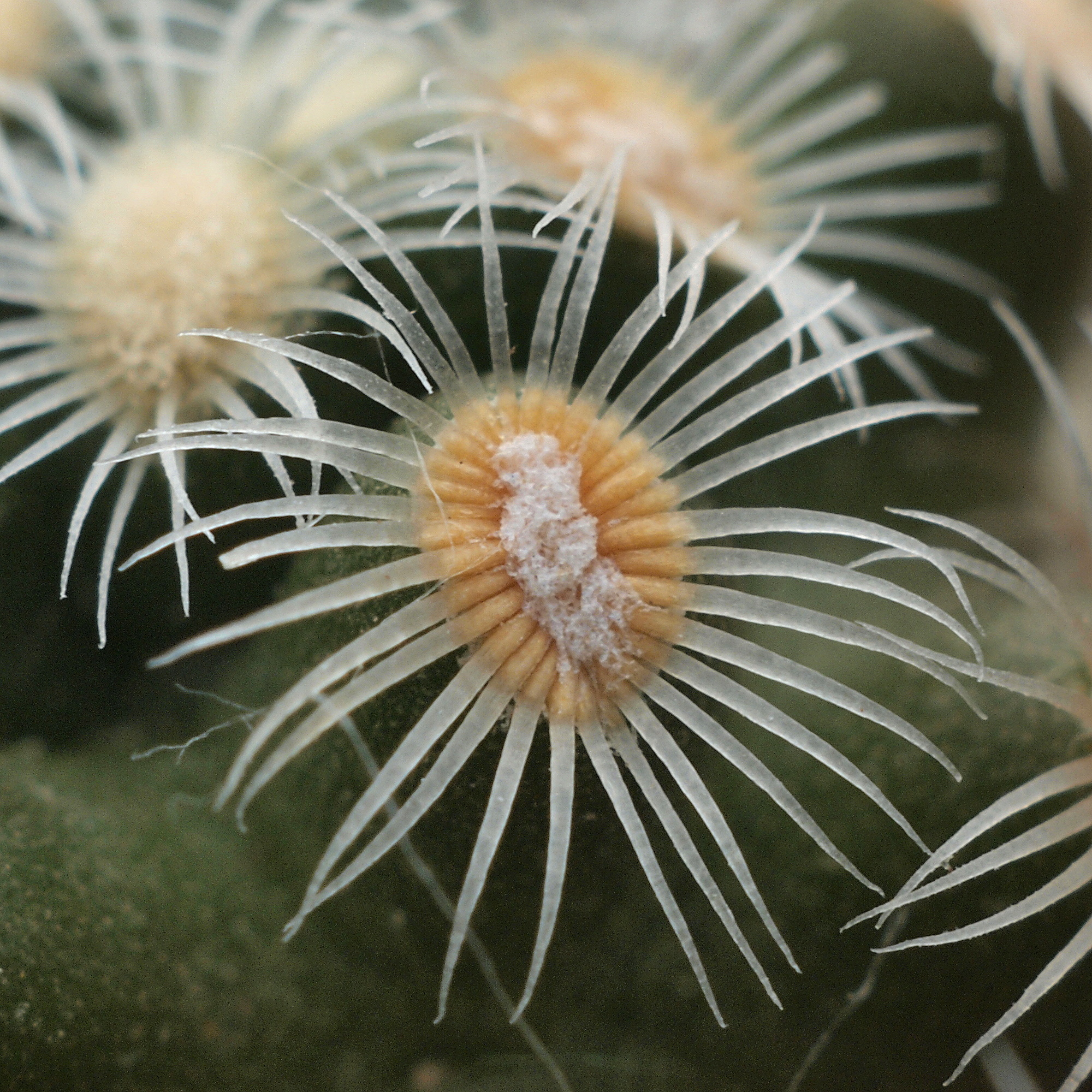 Mammillaria saboae subsp. haudeana